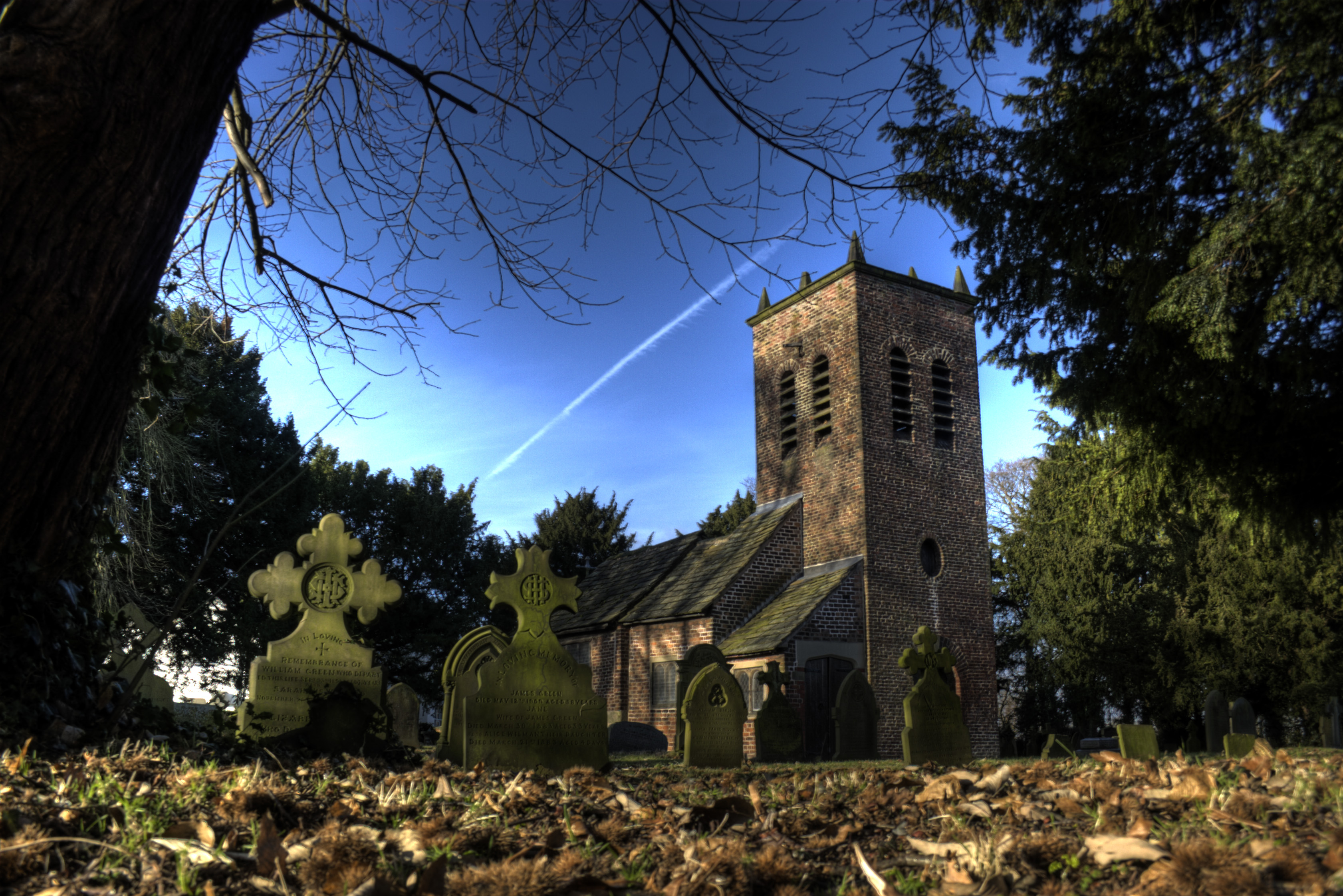 St Werburgh's parish church, Wigsey Lane, Warburton, Greater Manchester. This view is taken the wall beside the road.